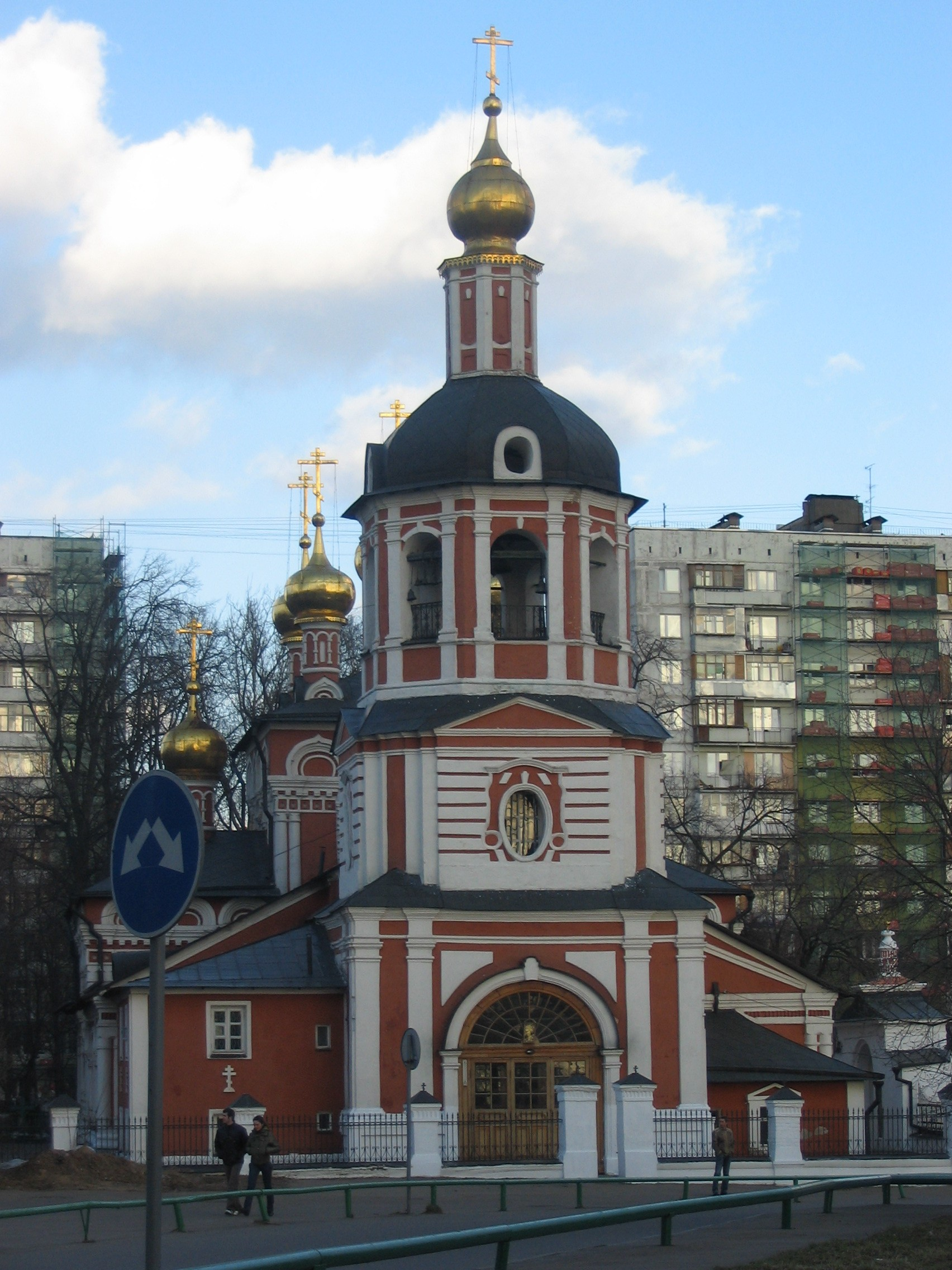 Church of Nativity in Izmaylovo. Western façade